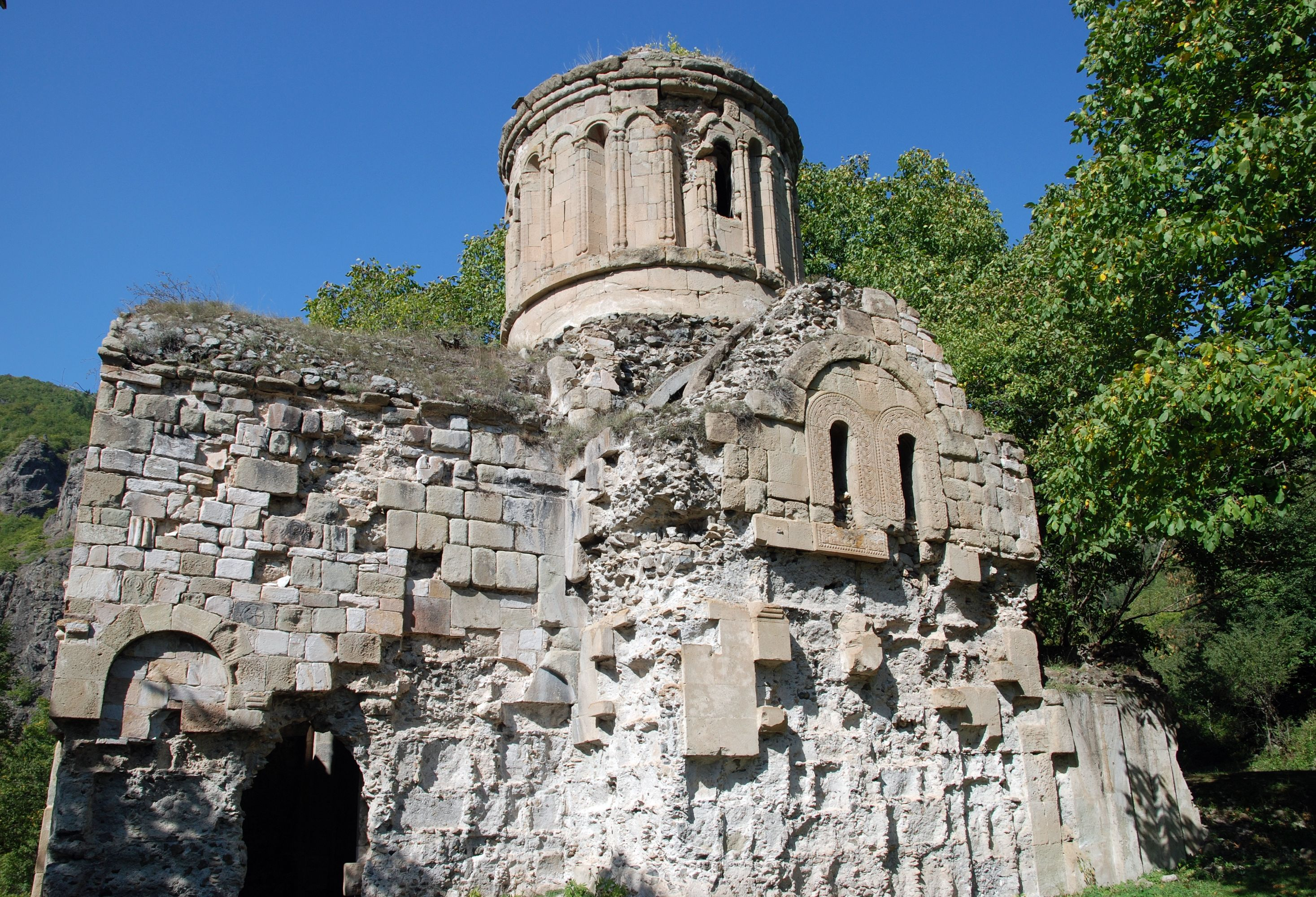 Yeni Rabat, Artvin province, Georgian church